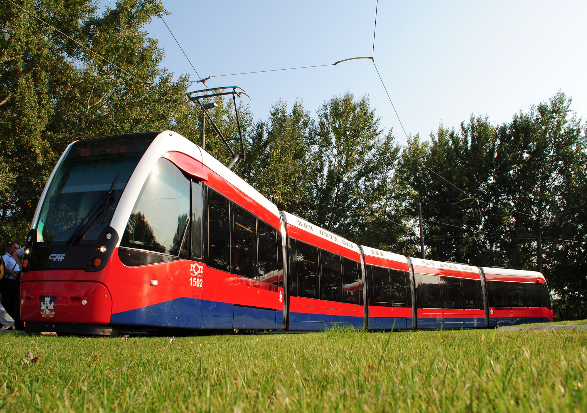 CAF Urbos III tram. Location: Belgrade, Blok 45